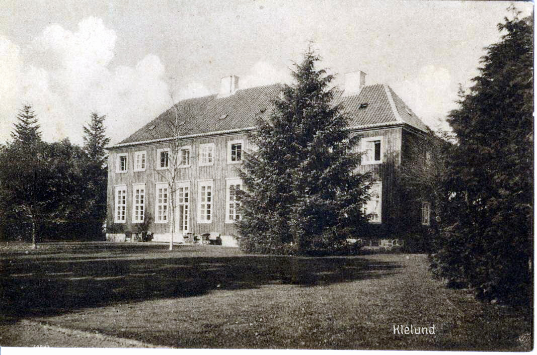 Klelund Plantation with the mansion built 1920 to a design by Albert Oppenheim. Demolished 2009.